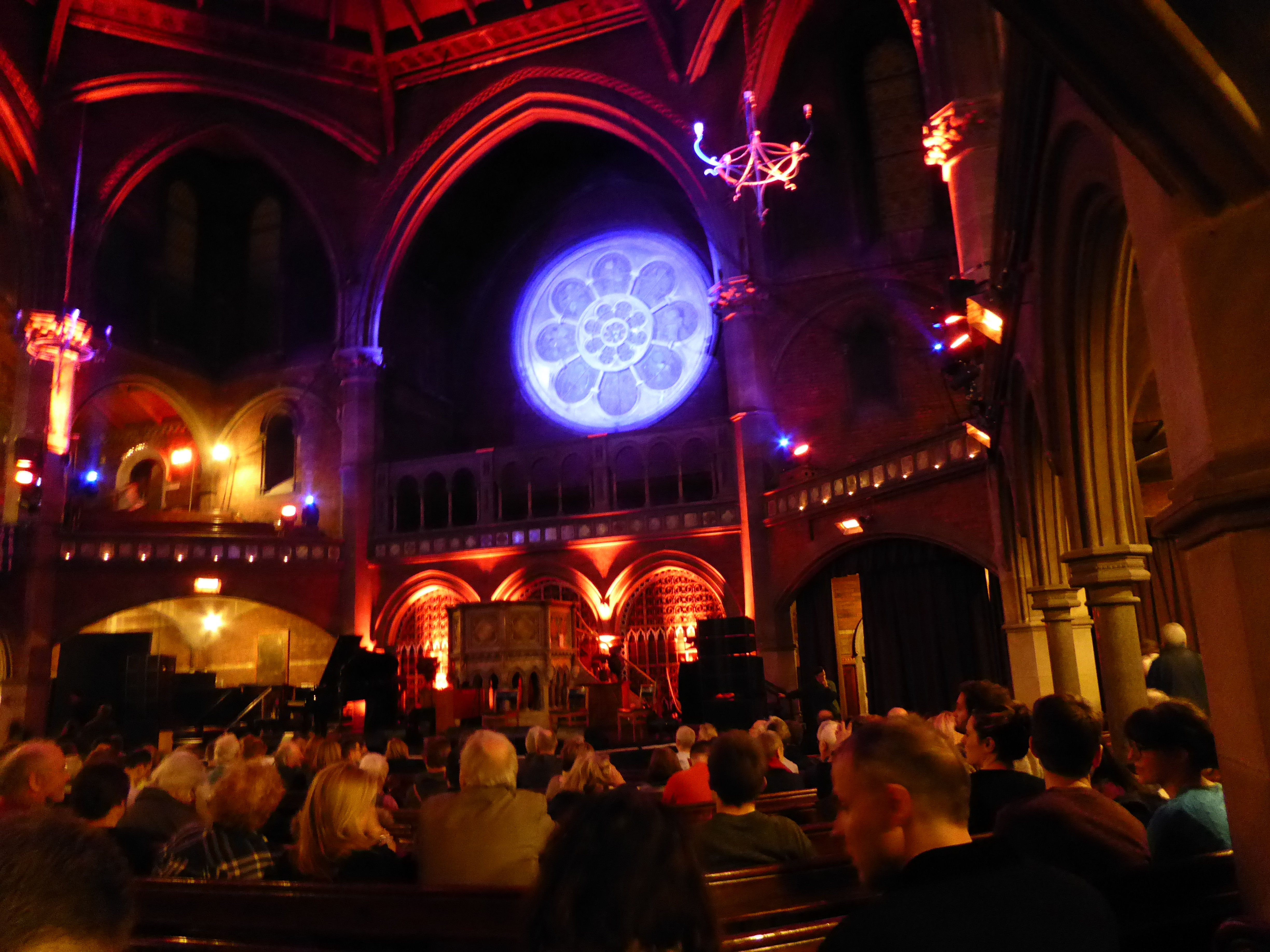 Union Chapel (just before performance by The Gloaming), Islington, London, England, February 2016